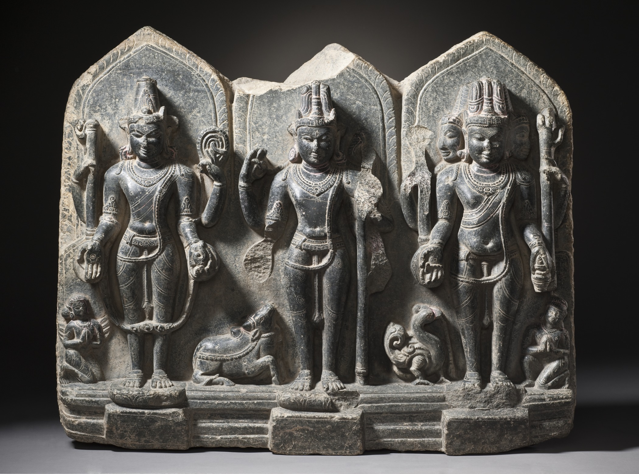 India, Bihar, Terai region, 10th century Sculpture Black schist Gift of Ramesh and Urmil Kapoor (M.86.337) South and Southeast Asian Art